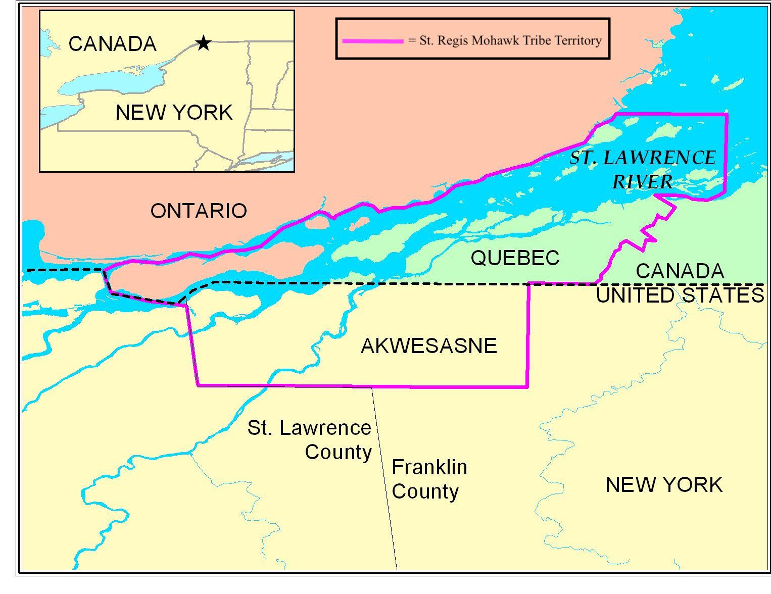 St Regis Mohawk Tribe Territory